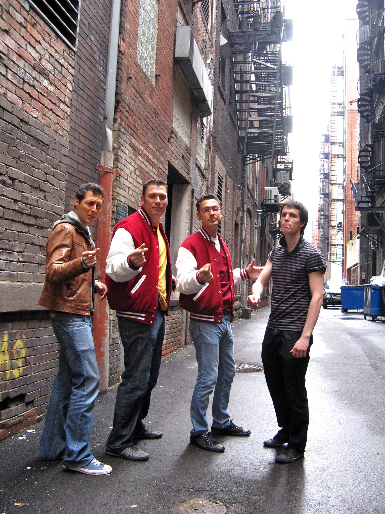 The Spanish vocal harmony doo wop group called The Earth Angels. The picture was taken in Pittsburgh, Pennsylvania, during their participation in the festival of this genre at the Benedum Center for the performing arts in May 2010.